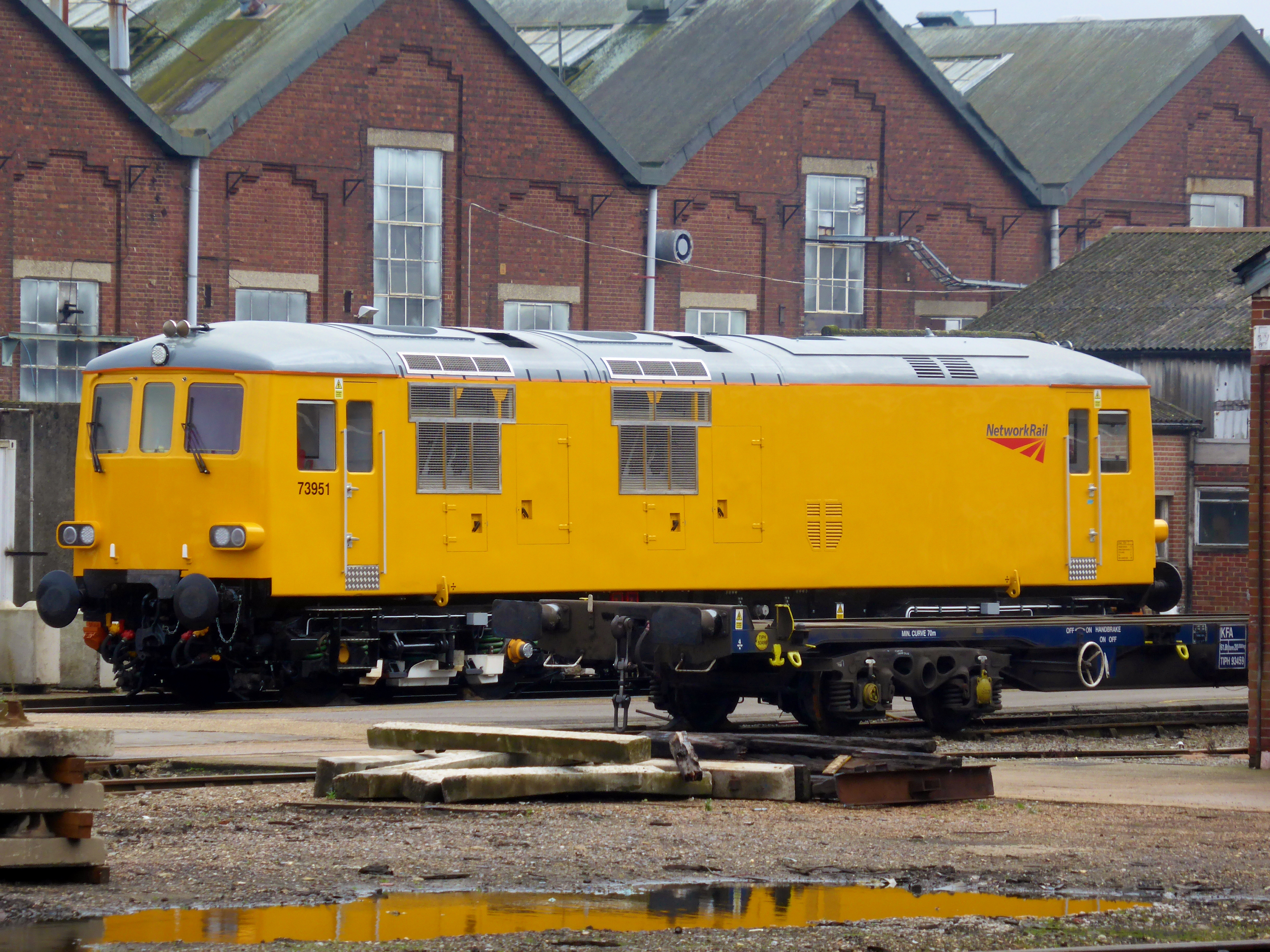 British Rail Class 73 No. 73951 (previously 73104 and E6010) at Eastleigh works on 31 October 2015 following conversion to Ultra73 specification.